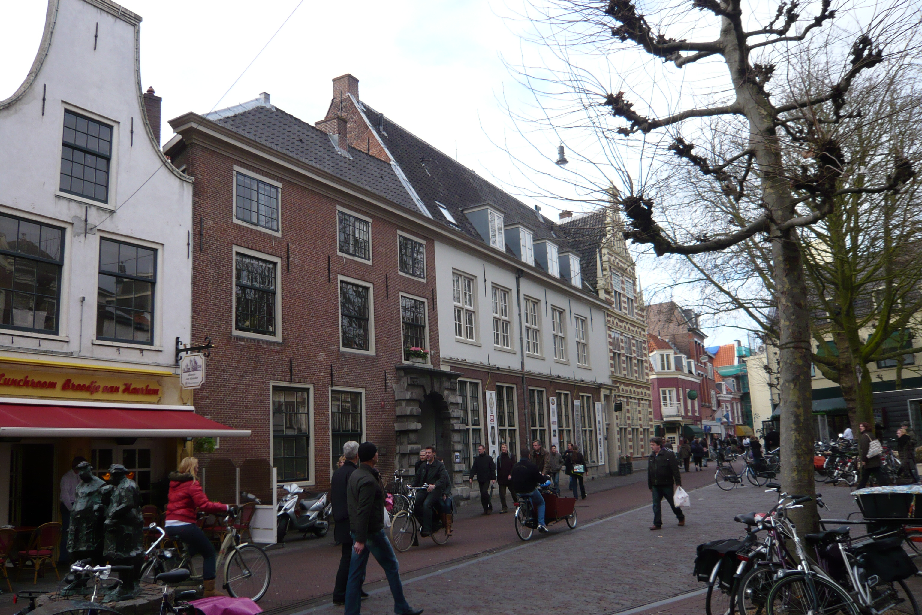 View of Proveniershuis and the Gierstraat from the Grote Houtstraat in Haarlem.